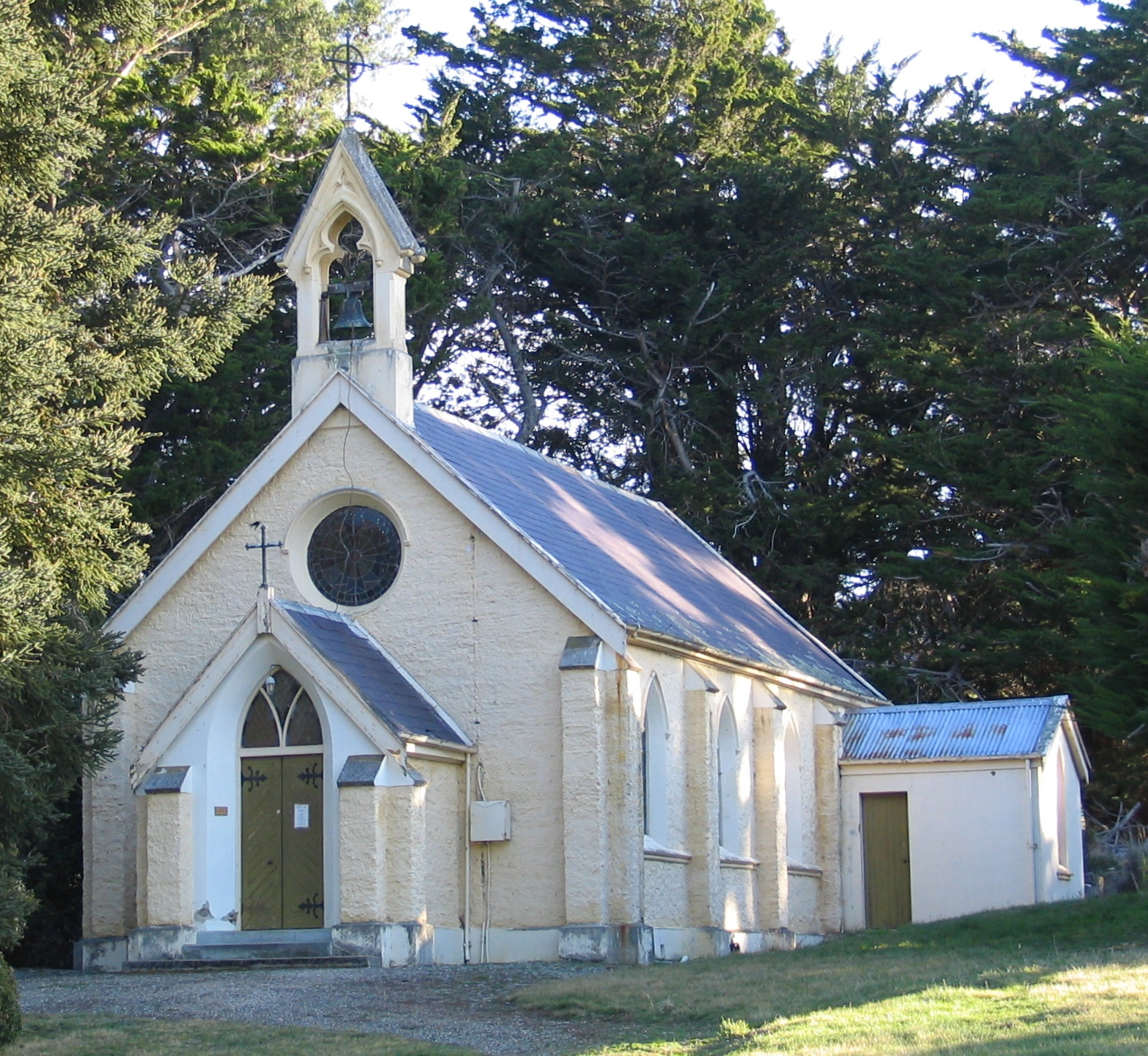 Catholic Church of the Sacred Heart of Jesus, Hyde, Otago, New Zealand. New Zealand Historic Places Trust Register number: 2253